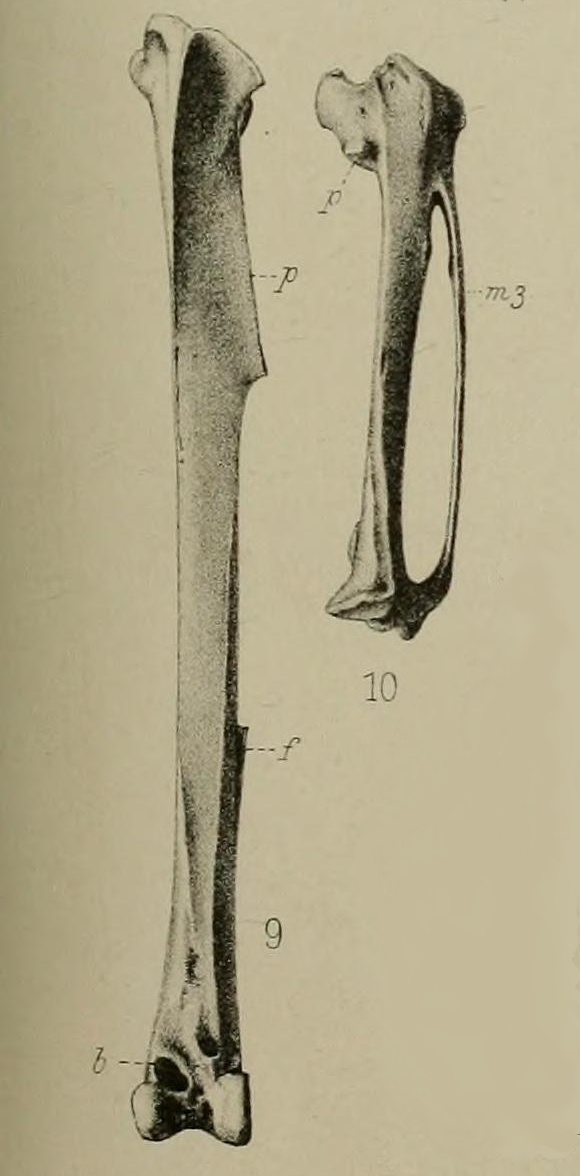 Plate XXXIII from Edward Newton and Hans Gadow's On additional bones of the Dodo and other extinct birds of Mauritius obtained by Mr. Théodore Sauzier. 9–10: Circus maillardi 9 Left tibia, front view. f: rest of fibula; b: bony bridge over the tendon of the m. extensor digitorum; p: peroneal crest. 10 Left metacarpals, lateral view. p: articular facet of the pollex; m3: metacarpale III